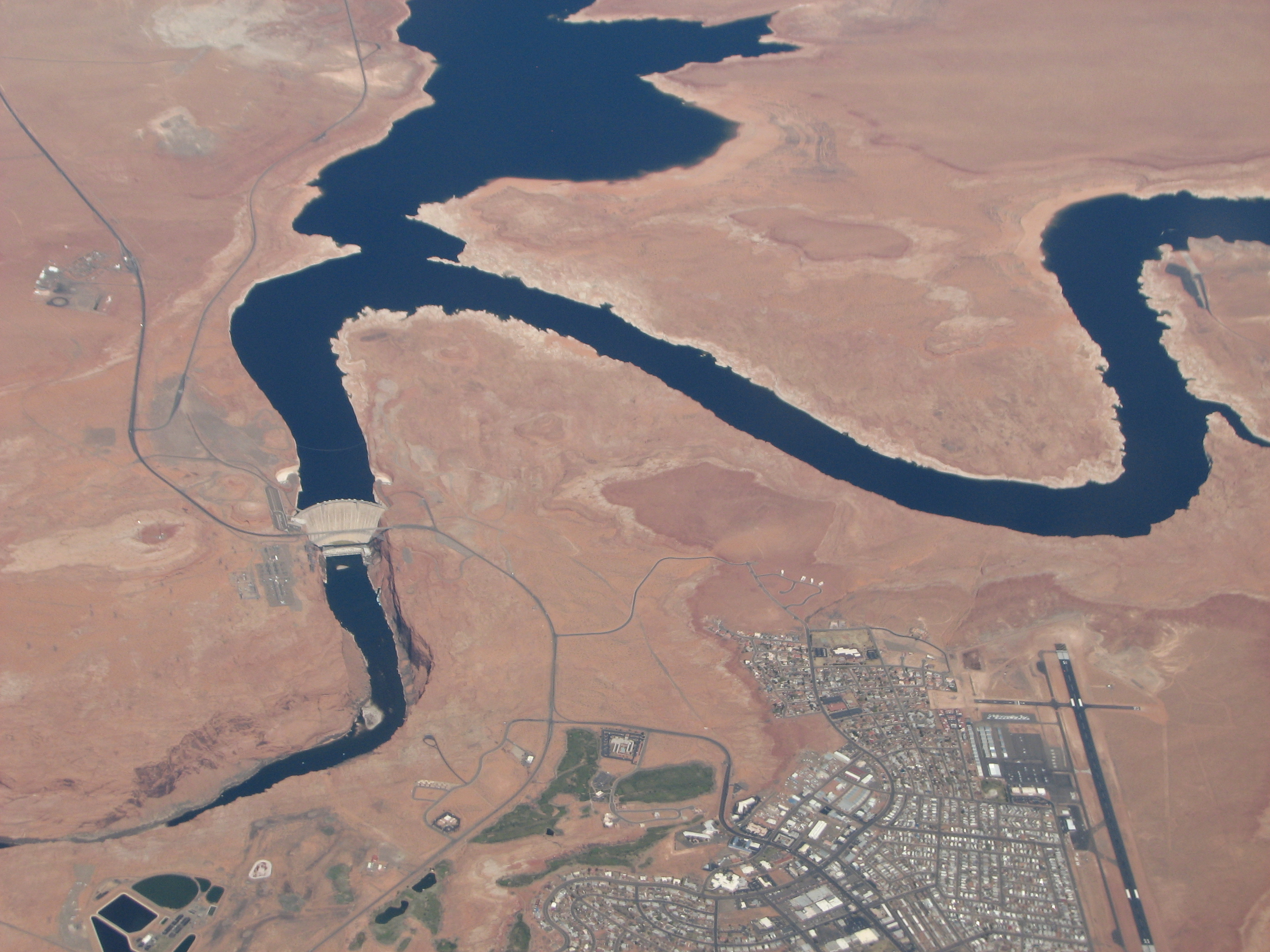 A view from the air of Glen Canyon Dam, Lake Powell, and part of Page, Arizona.